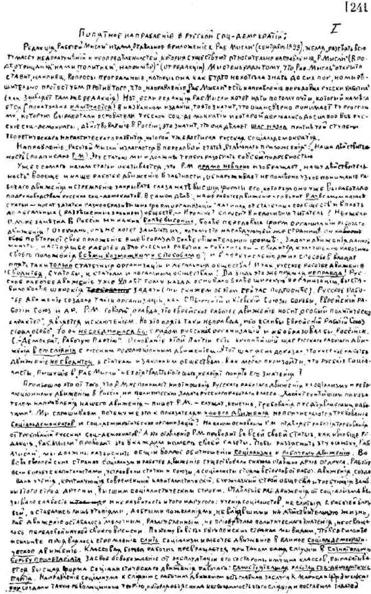 First page Lenin's article Backward movement in russian Social Democarcy